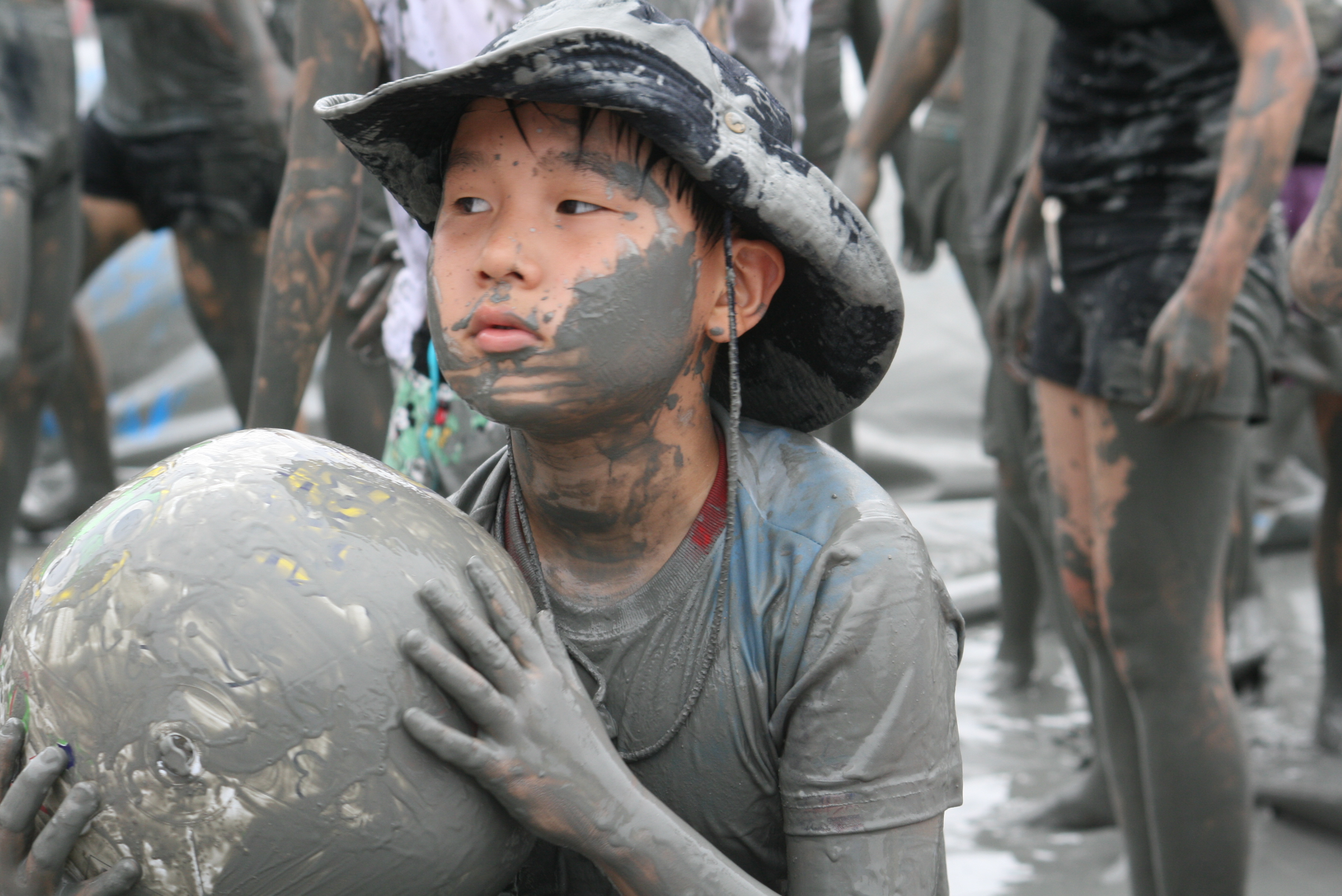 Korea-Boryeong Mud Festival